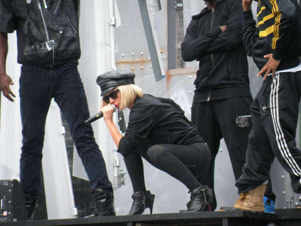 Lady Gaga singing at the soundcheck of the 2009 MuchMusic Video Awards, held in Kanada.